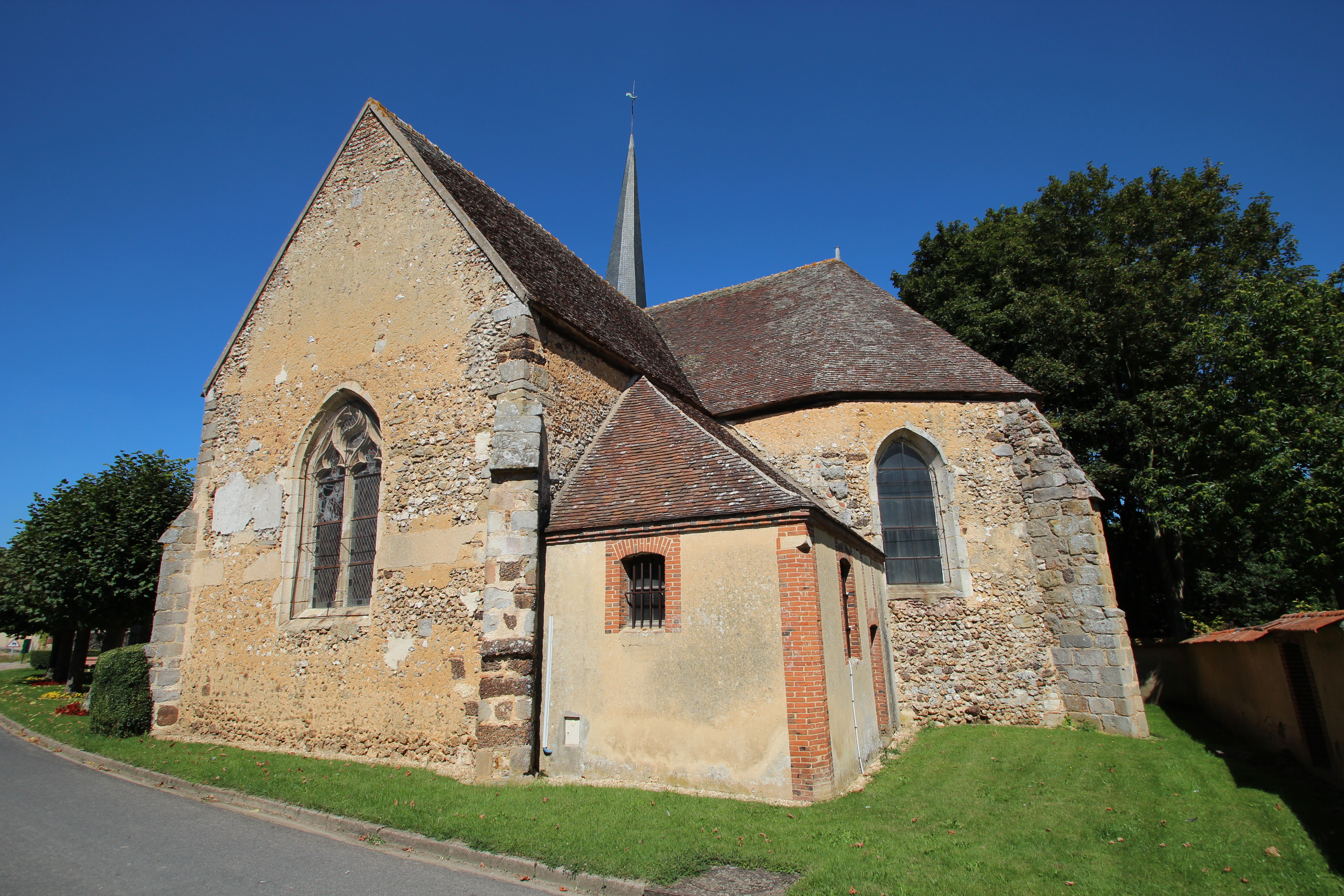 Saint-Aignan church of Fontaine-les-Ribouts, France. . Object location48° 39′ 14.13″ N, 1° 15′ 18.44″ E